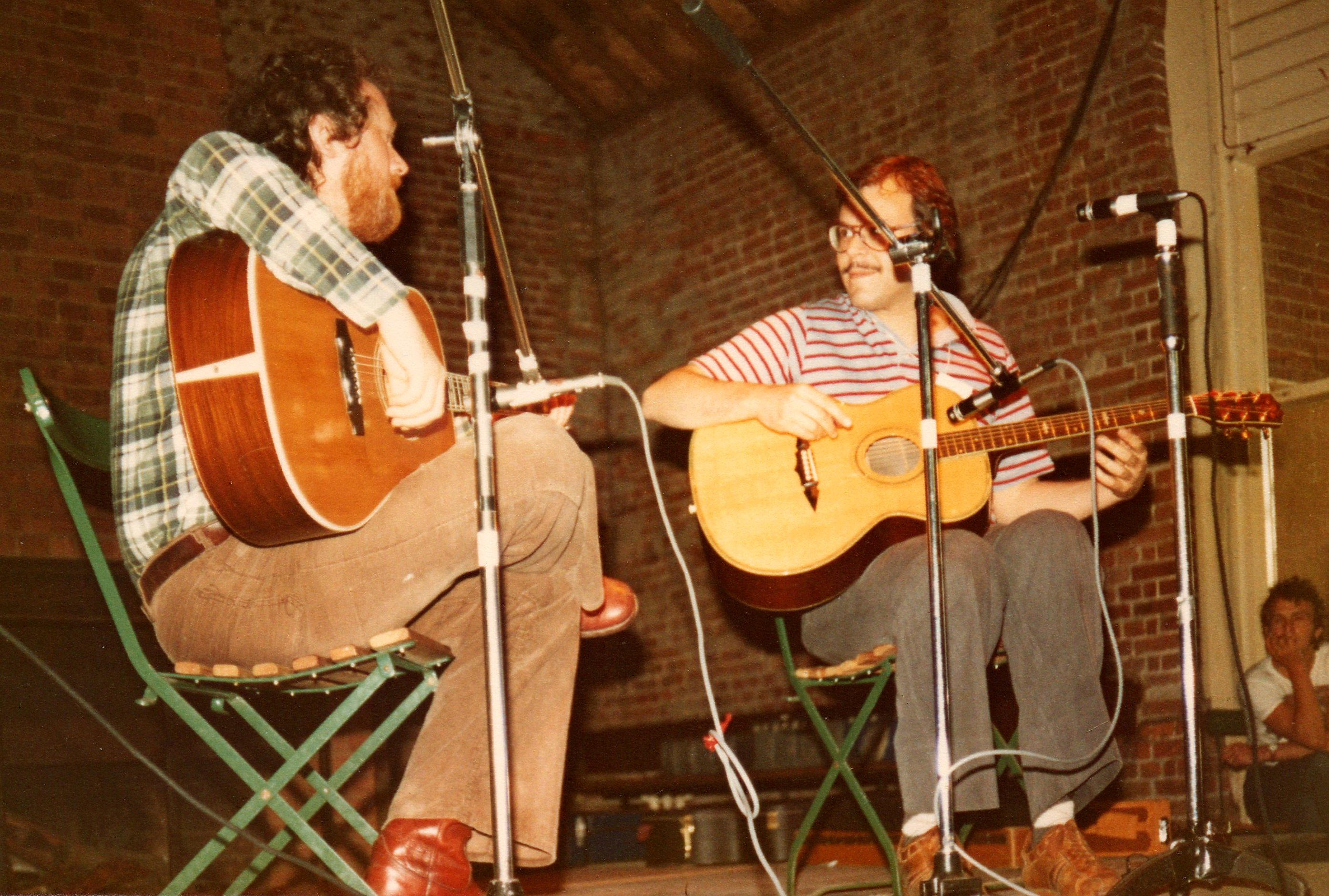 John Renbourn and Stefan Grossman (U.K. and U.S. Folk artists) on stage at the 1978 Norwich Folk Festival (Tony Rees photograph)